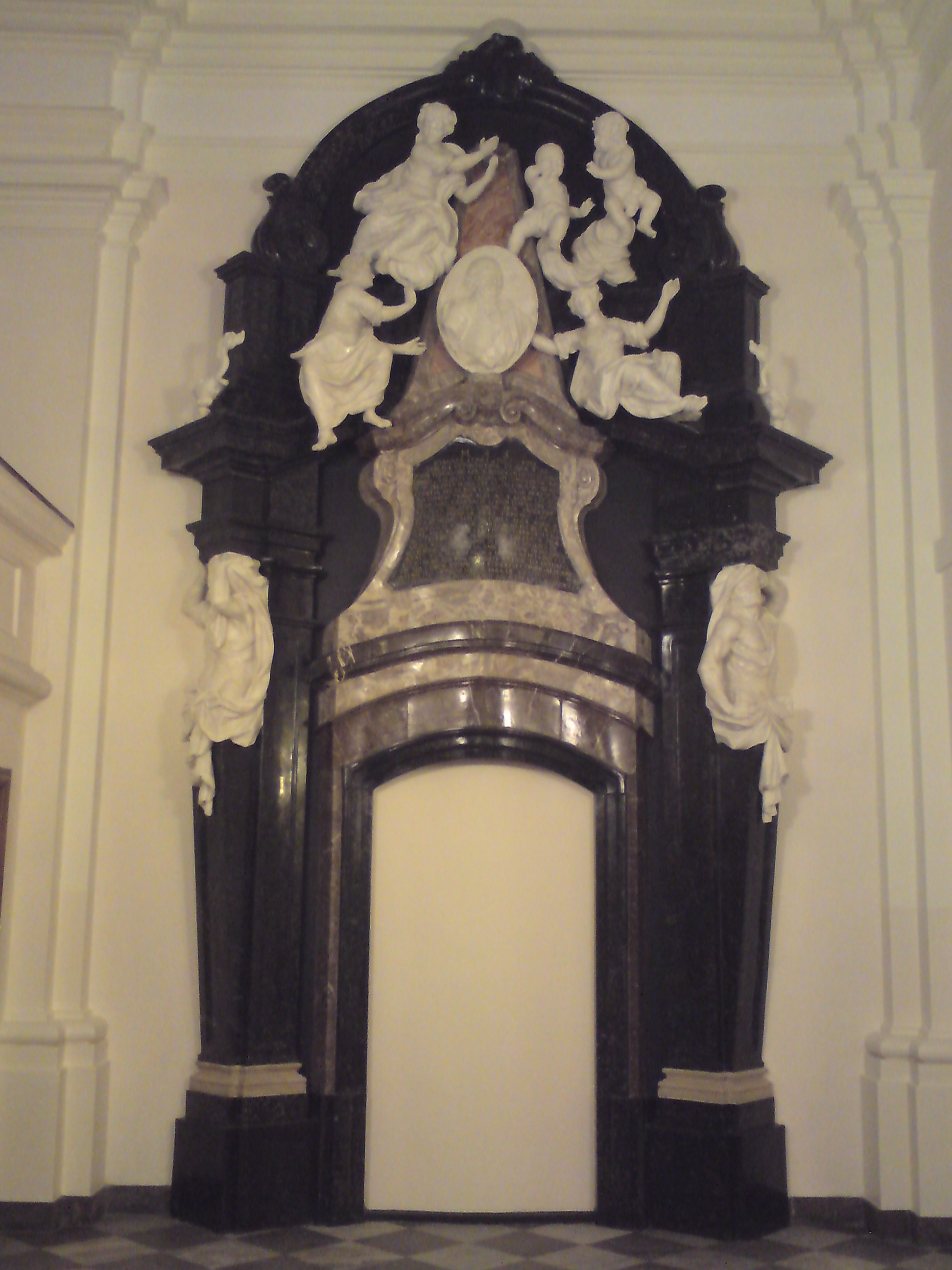 Voivode Jan Tarło's cenotaph, Jesuit's Church in Warsaw, after integration and restauration.